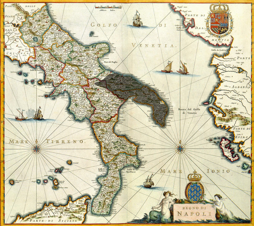 Principality of Taranto between 1414 and 1421 (in grey)